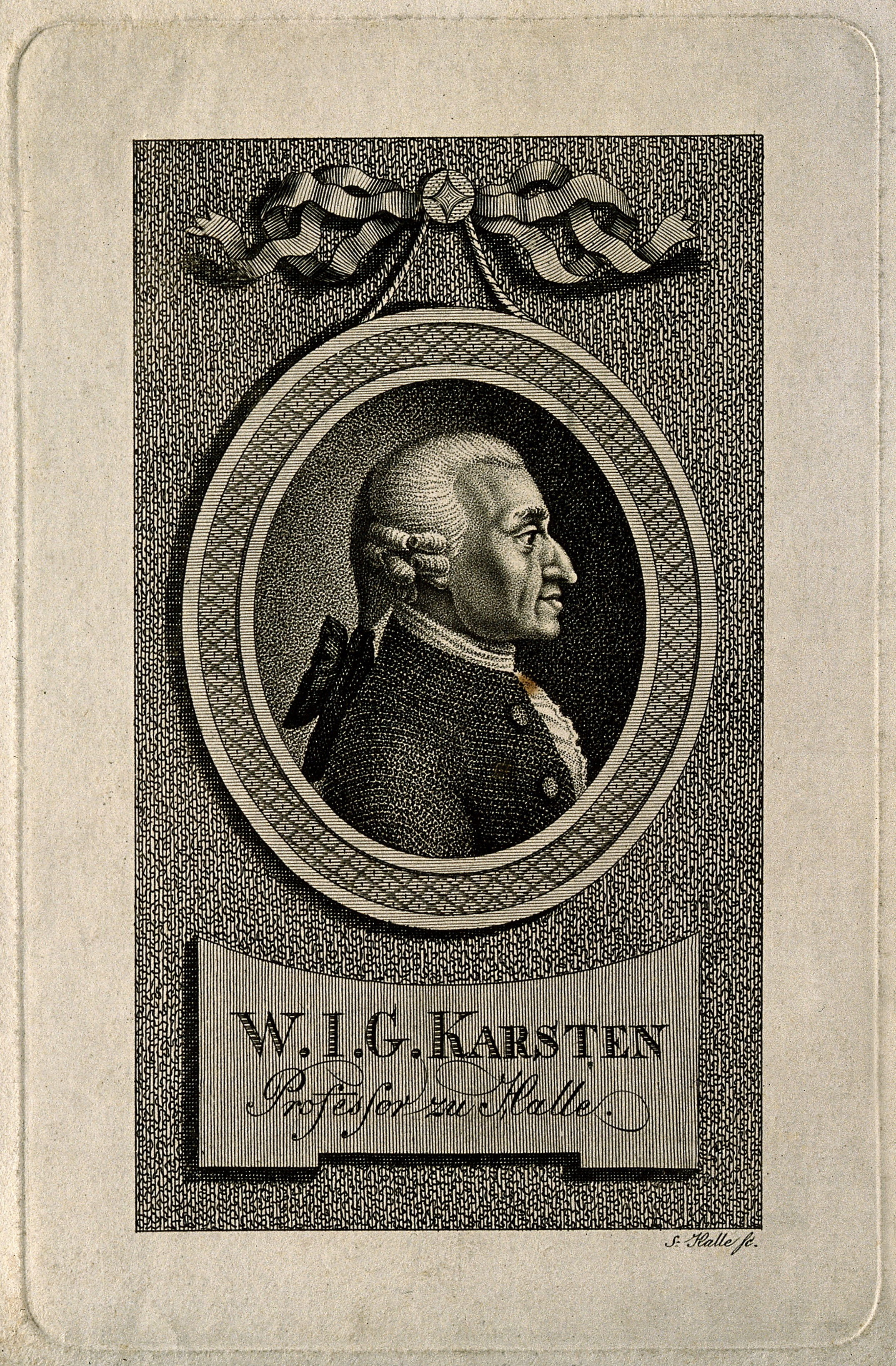 Wenzeslaus Johann Gustav Karsten. Stipple engraving by S. Halle. Iconographic Collections Keywords: portrait prints; stipple prints; Wenzeslaus Johann Gustav Karsten